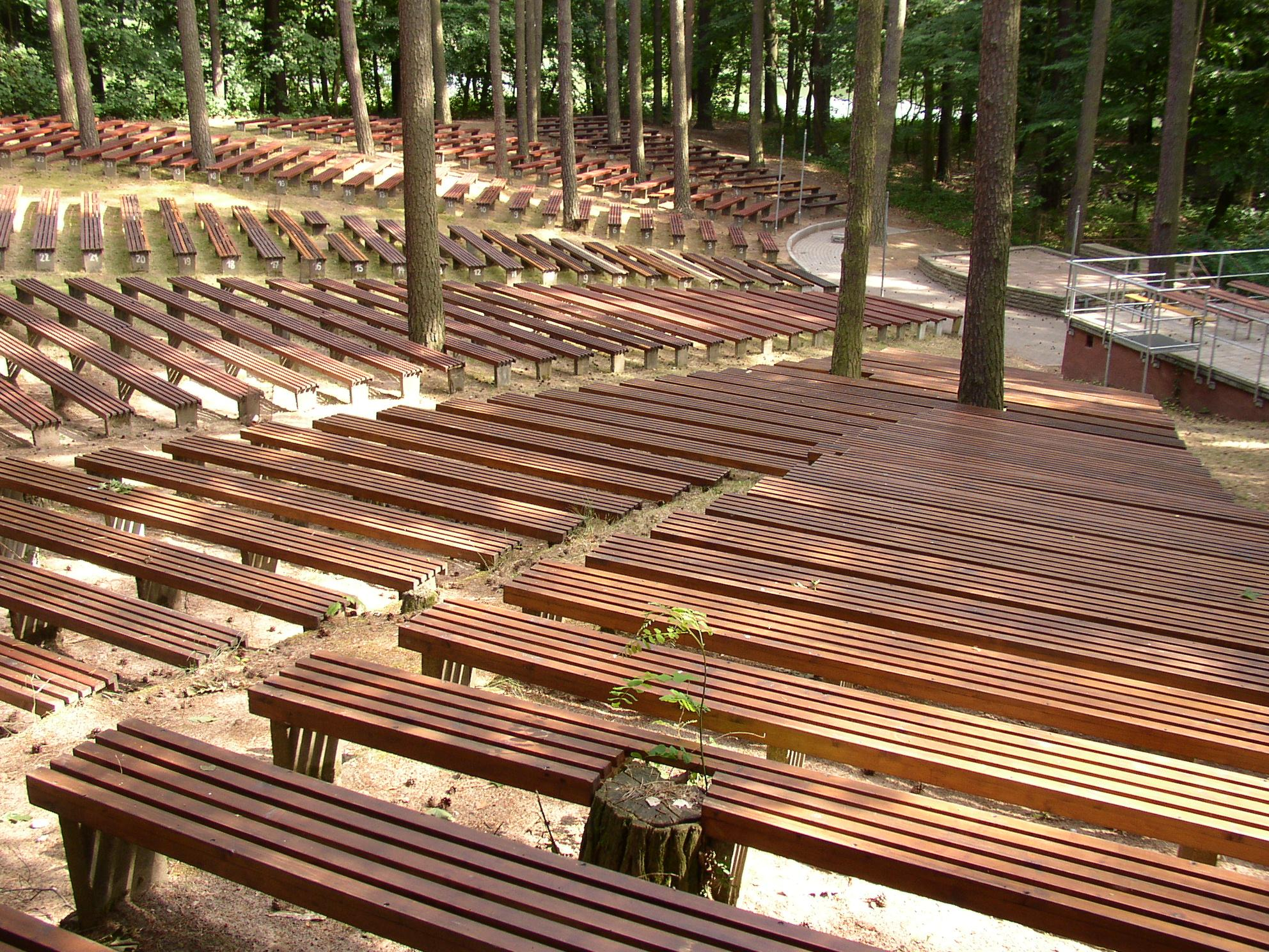 Church in the Woods in Bernau-Lobetal in Brandenburg, Germany